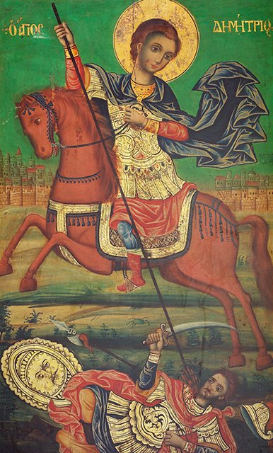 Saint Demetrius at Mt Athos, Museum of Russian Icons, Clinton, Massachusetts